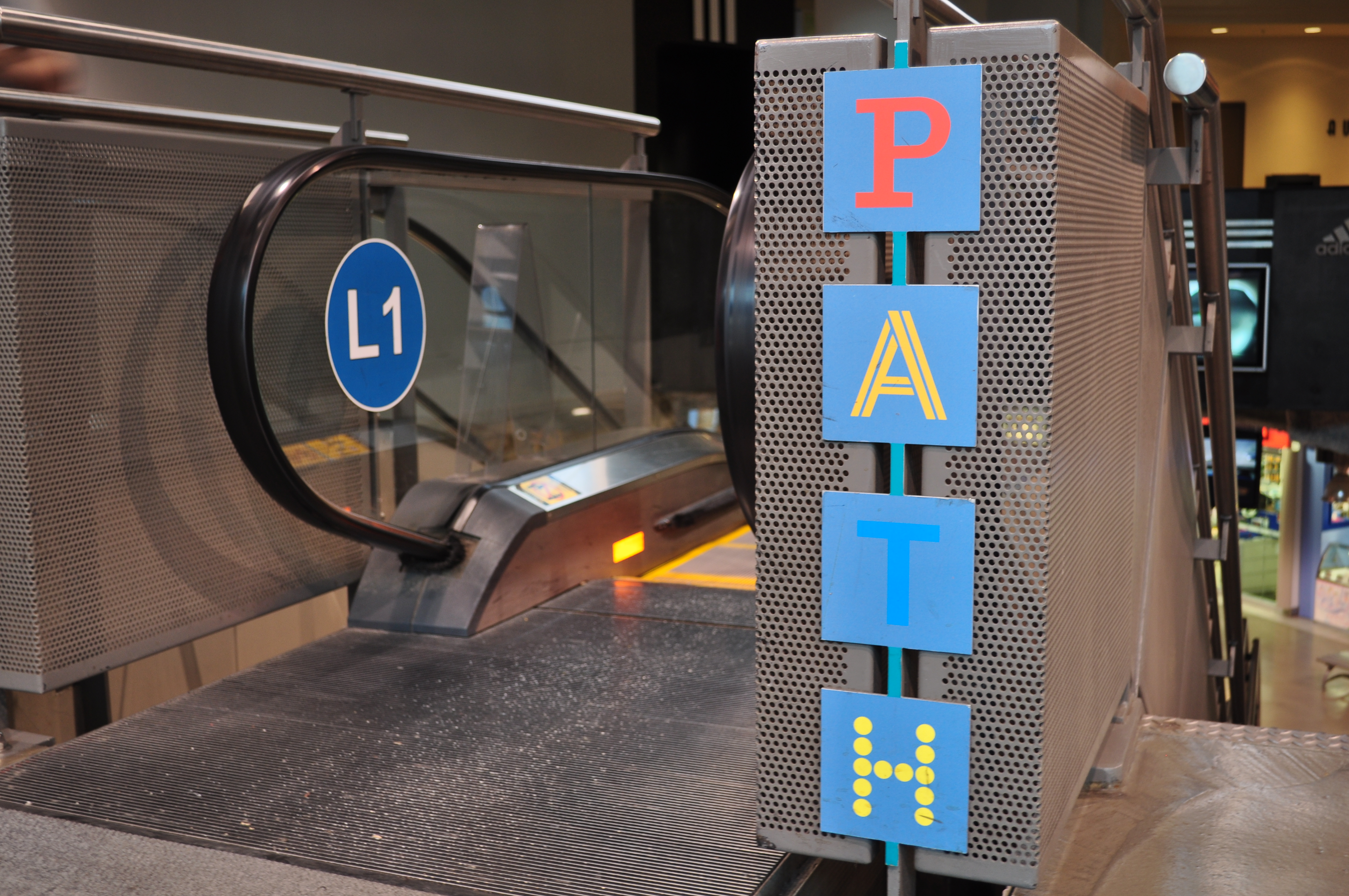 PATH Underground, Toronto